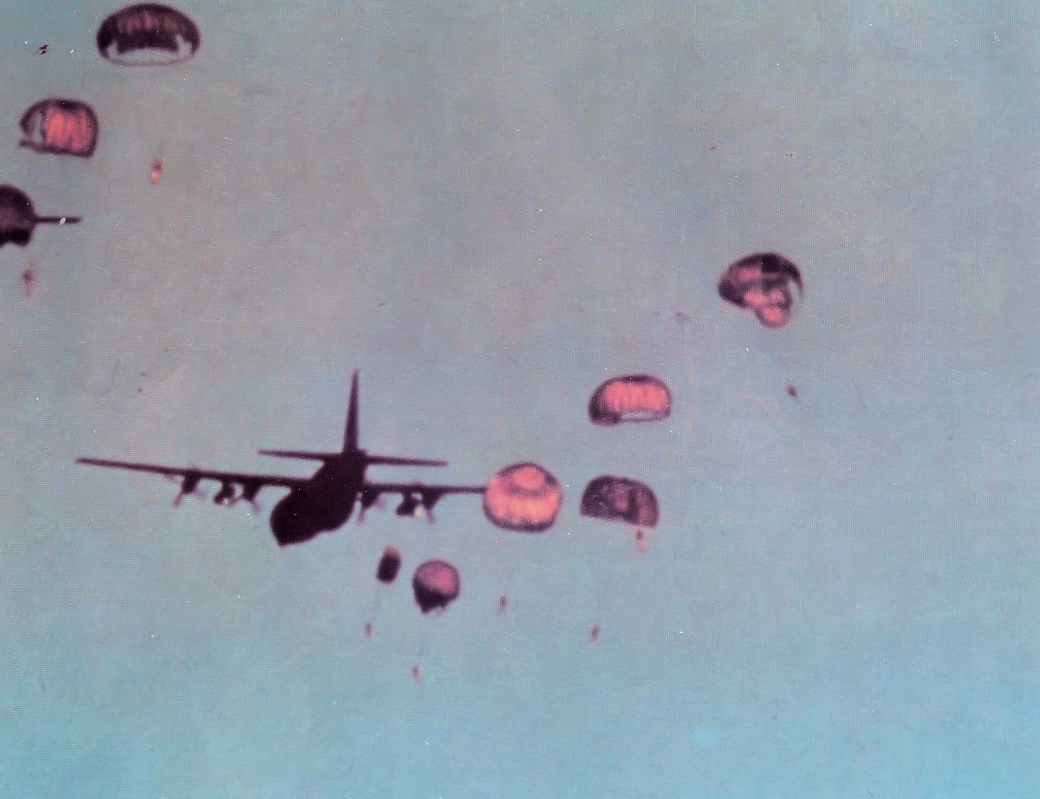 Clandestine C-130 supply drop over Tibet, 1959